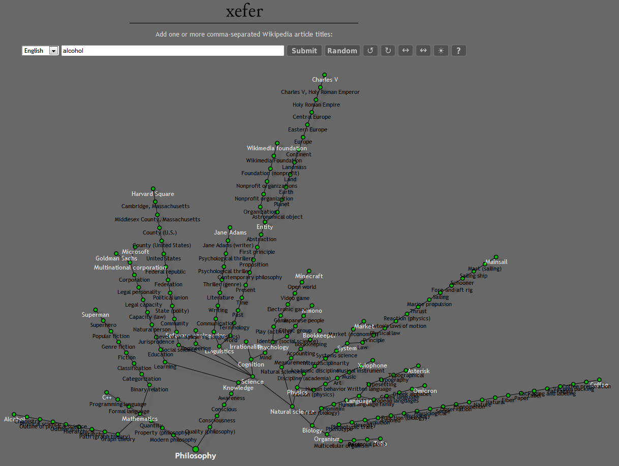 Graph of Wikipedia article links. to Philosophy